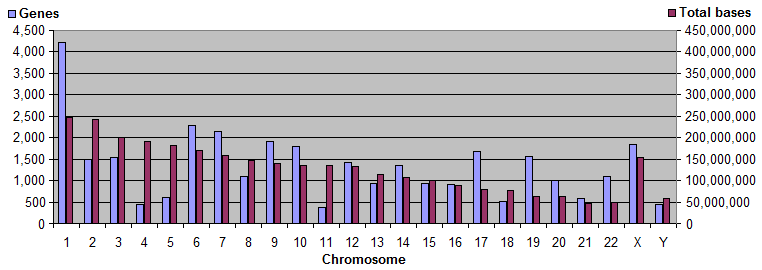 Statistics for the human chromosomes, based on the Sanger Institute's human genome information in the Vertebrate Genome Annotation (VEGA) database: [1] All data in this table was derived from this database, Nov 11, 2008. Number of genes is an estimate as it is in part based on gene predictions. Total chromosome length is an estimate as well, based on the estimated size of unsequenced heterochromatin regions. Further information: Wikipedia:Chromosome#Human_chromosomes.